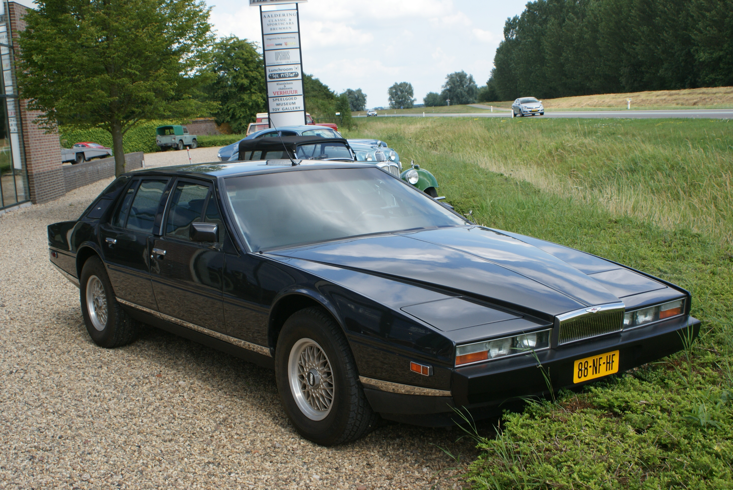 88-NF-HF The Gallery